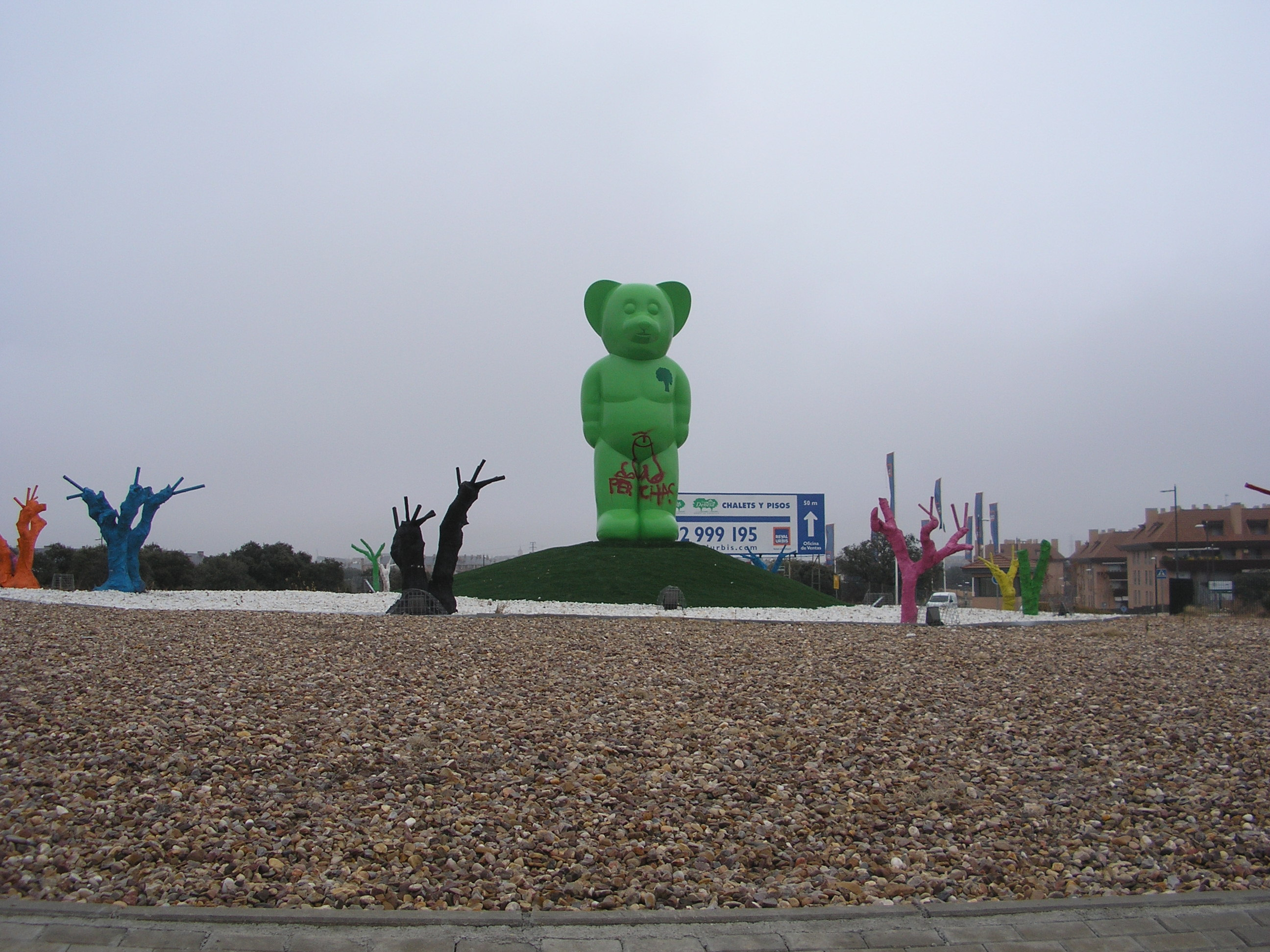 Boadilla